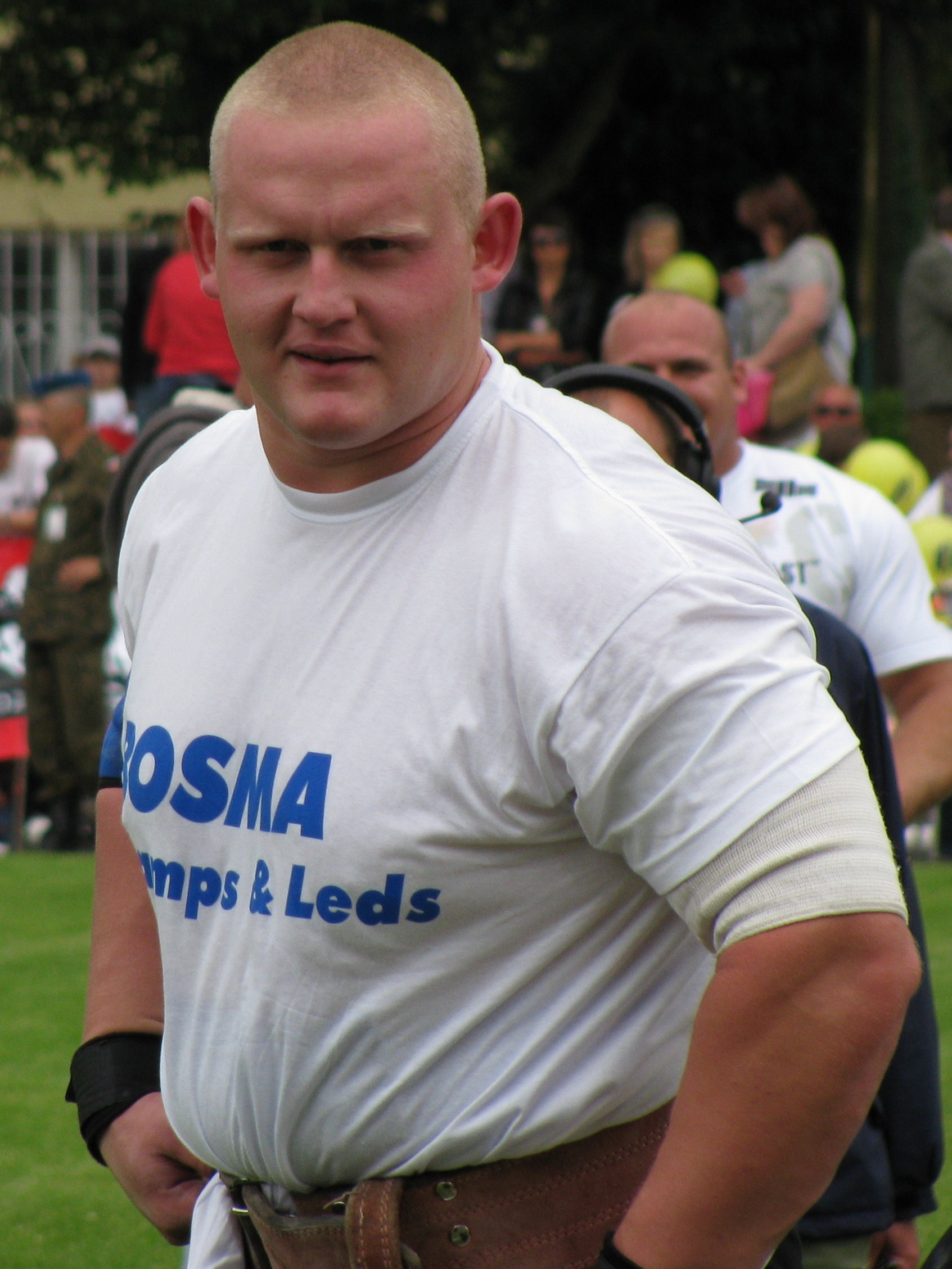 Rafal Kobylarz - a strength athlete from Poland